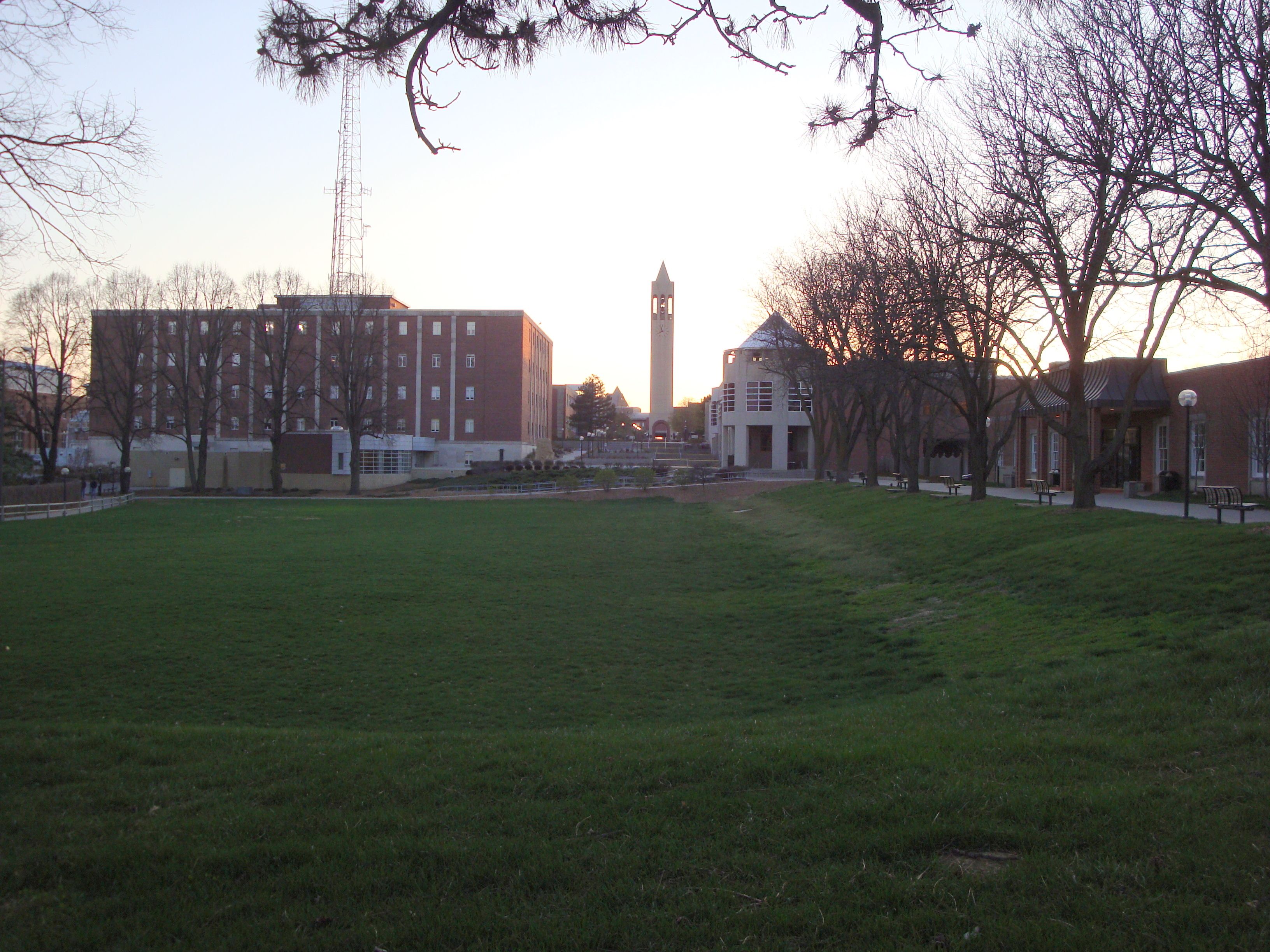 University of Nebraska-Omaha campus